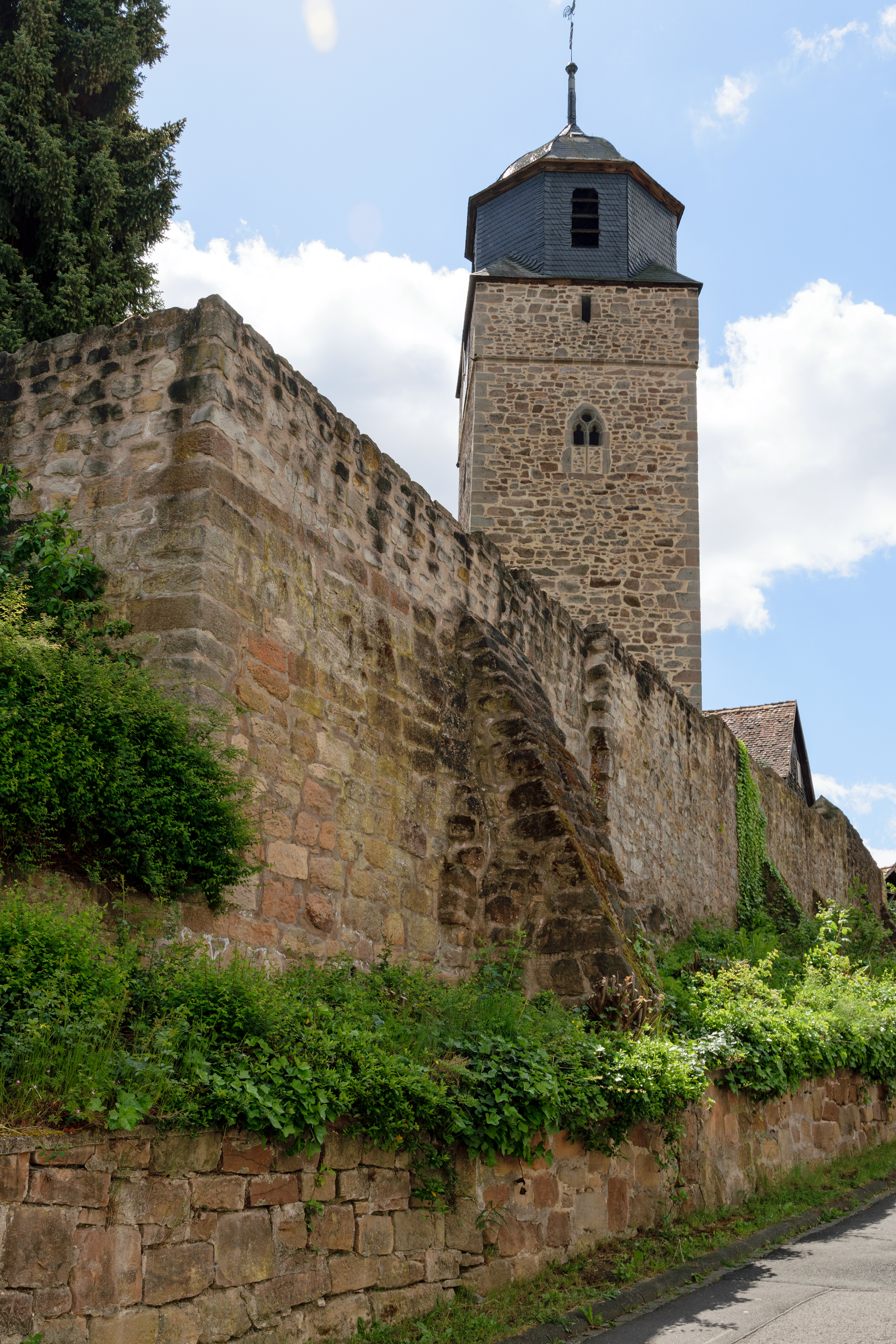 Tower and wall of evangelic St. Martin's Church in Wehrda